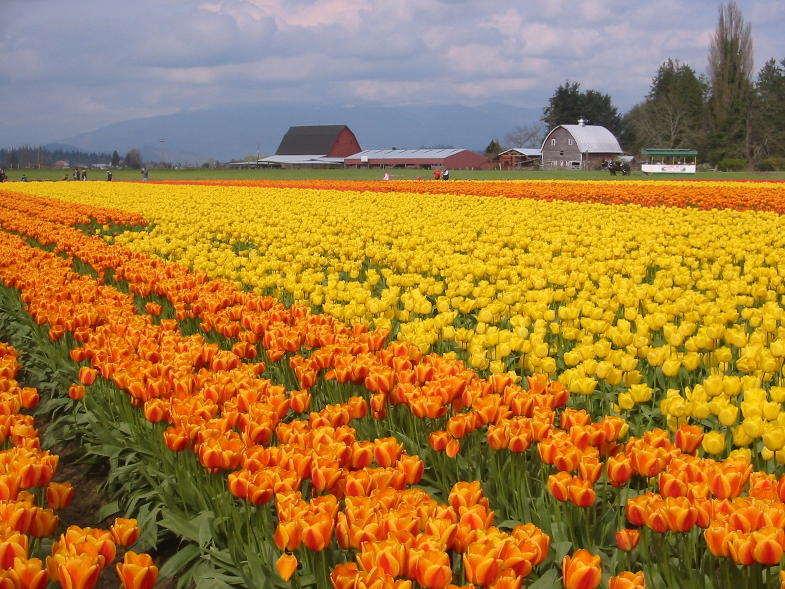 Skagit Valley, WA April 2003.